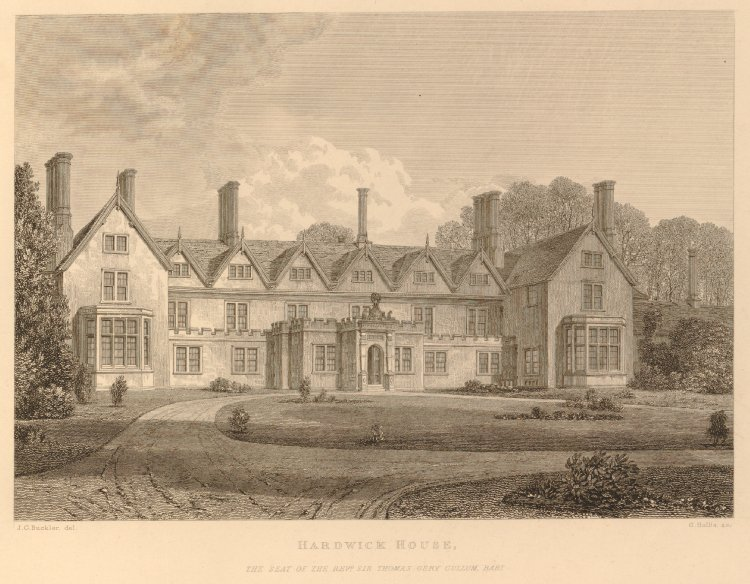 Hardwick House, Suffolk, "The Seat of the Revd. Sir Thomas Gery Cullum, Bart." Etching and engraving. 219 mm x 290 mm. Courtesy of the British Museum.